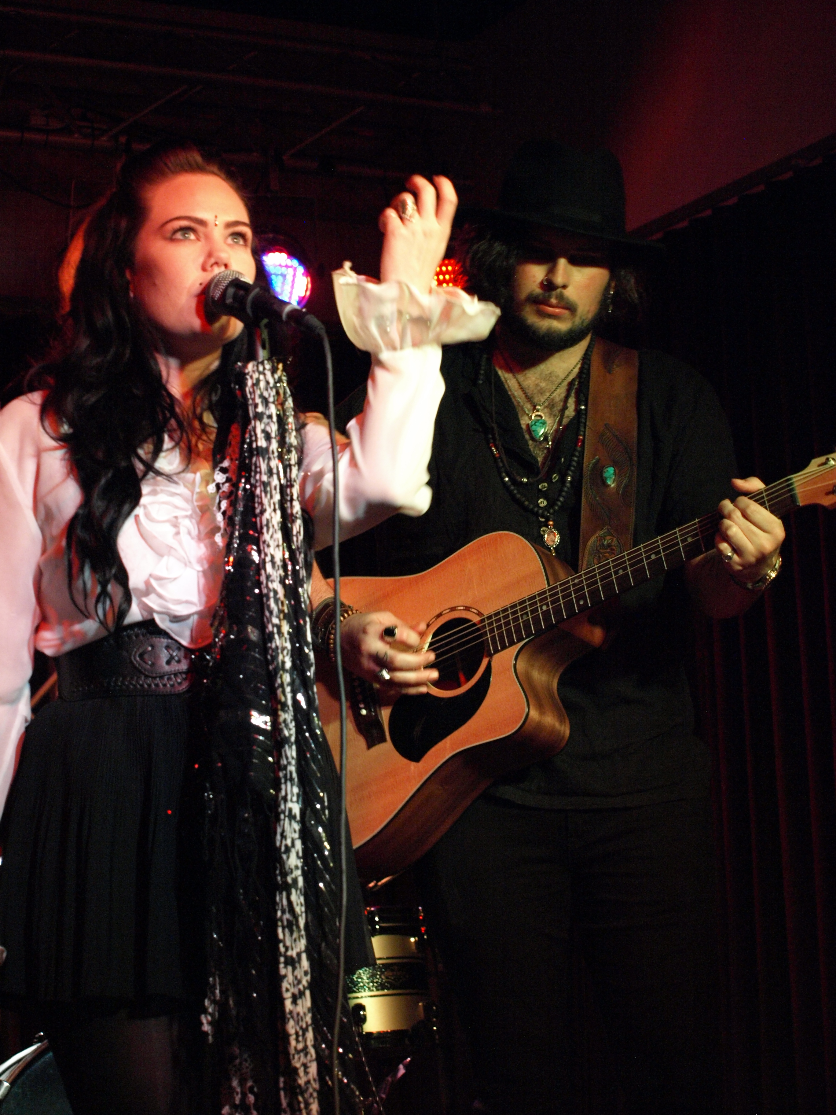 Gypsy's Gift performing at Sydney's Hard Rock Cafe in 2014